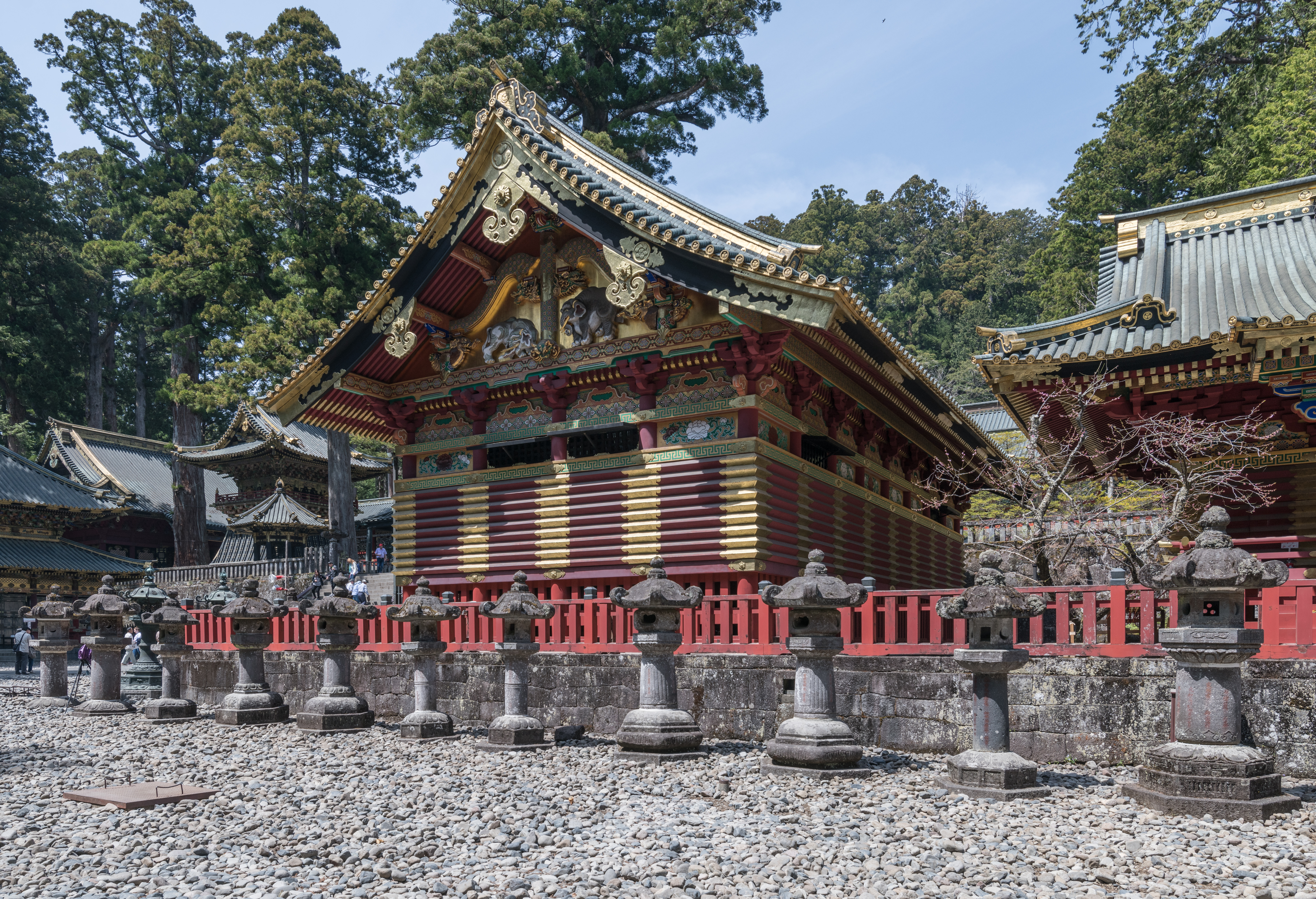 A southeast view of Kamijinko, Tōshō-gū, Nikko